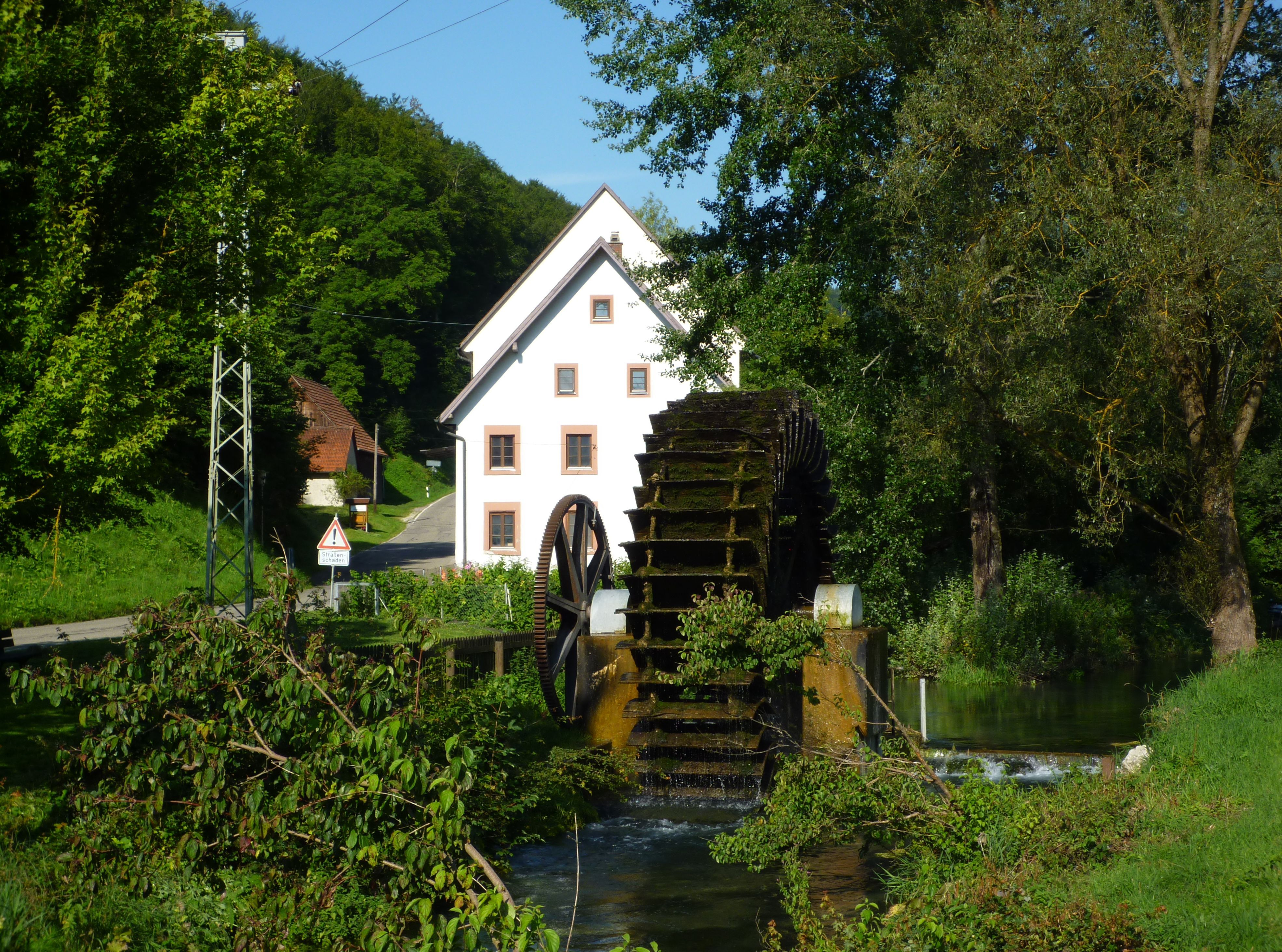 Grist mill in Taltsteußlingen, former exclusive mill for the domain of Neusteußlingen; municipality of Hütten-Schelklingen, Schmiech valley